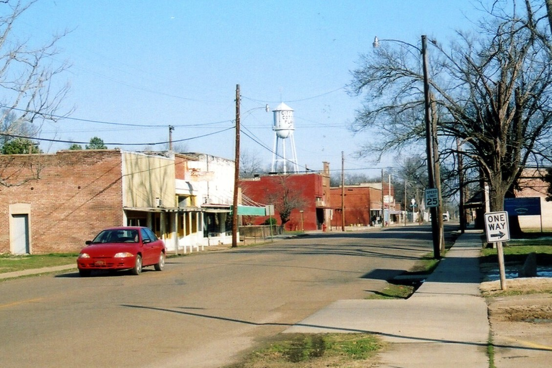 Cotton Plant Main Drag